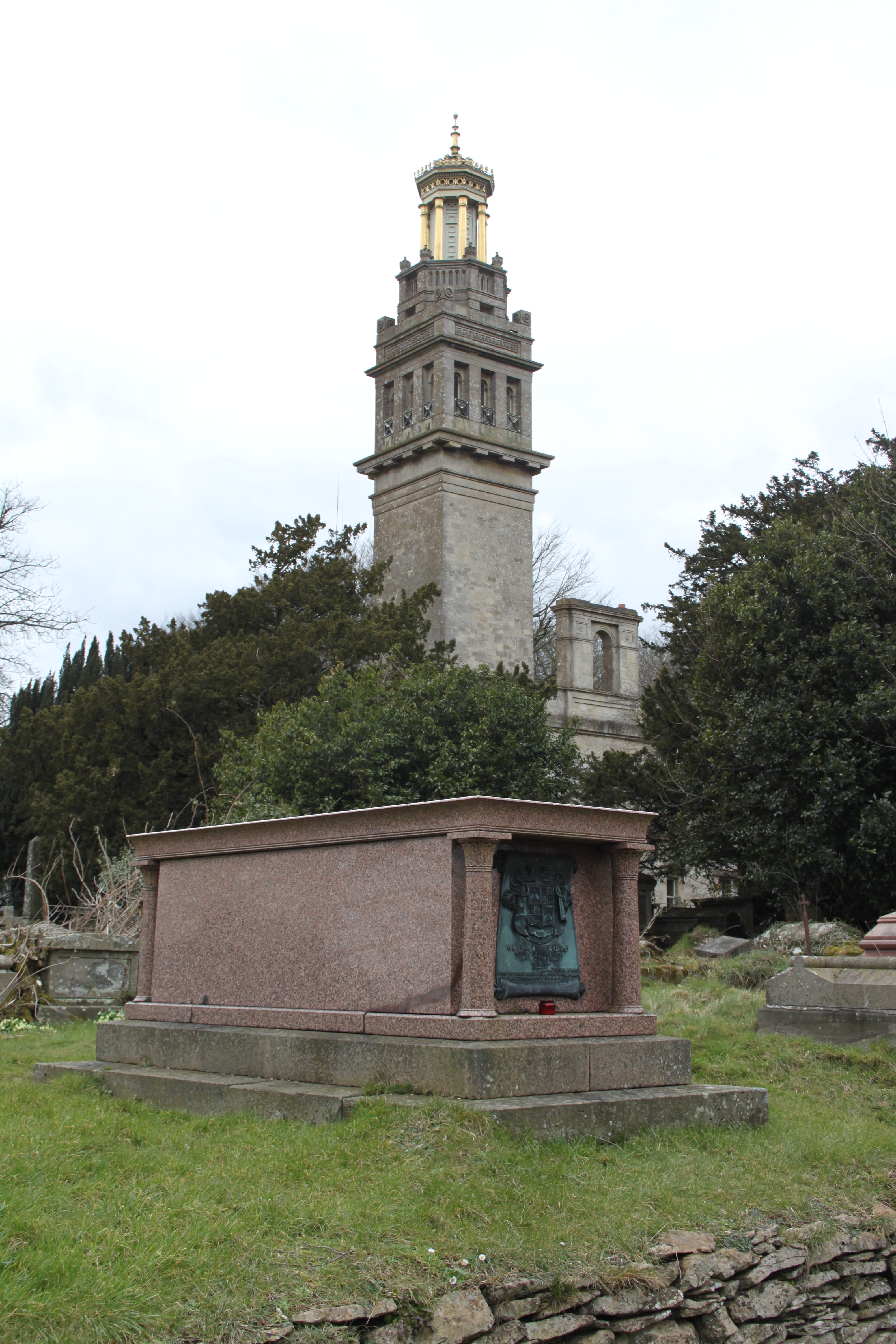 William Beckford's tomb at Beckfords Tower